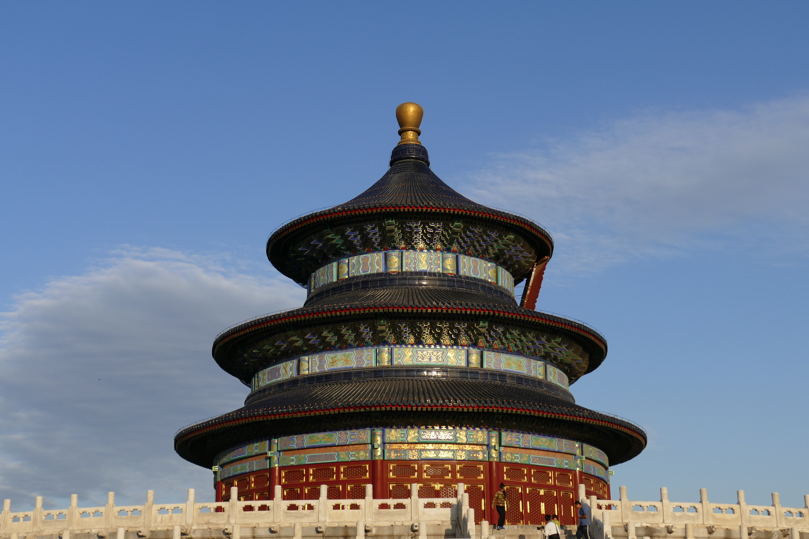 Temple of Heaven - Beijing, 29.9.2014